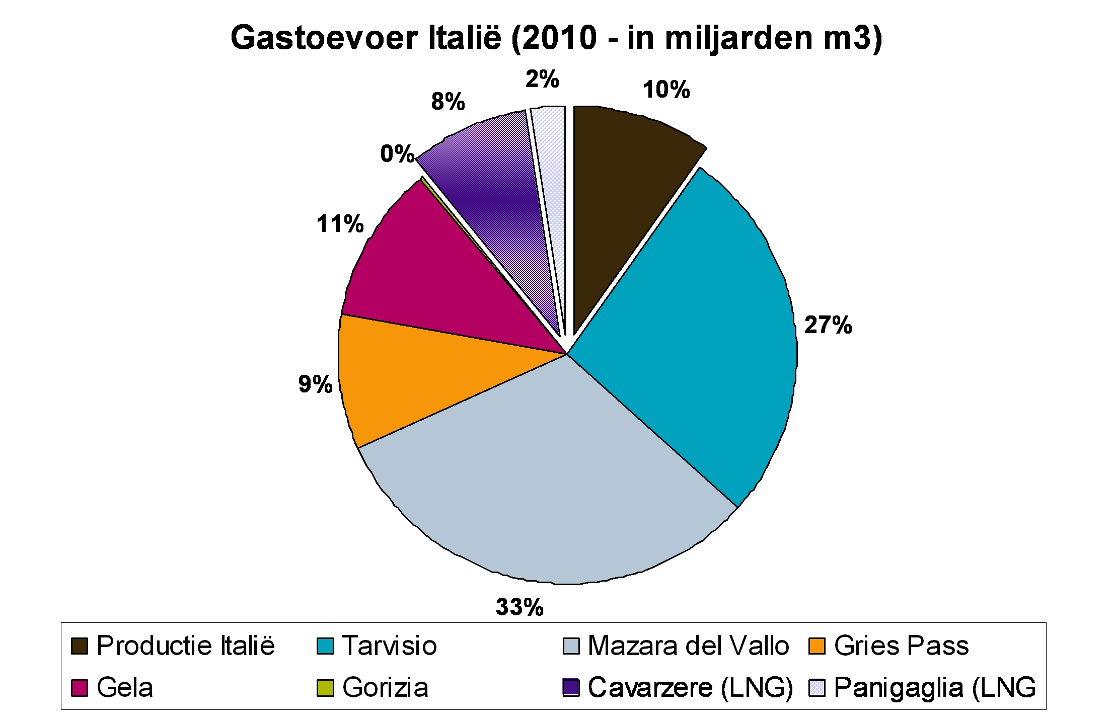 Italy: Natural gas injected into the national transportation network. Data: 2010. Source: Snam Rete Gas preliminary results for 2011